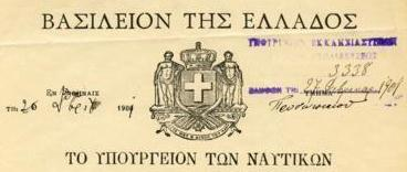 The letterhead from a document of the Ministry of the Seas, Greece. Cropped from File:Ypourgeio Naftikon Ministry of the Seas document about the Antikythera wreck 1901.jpg